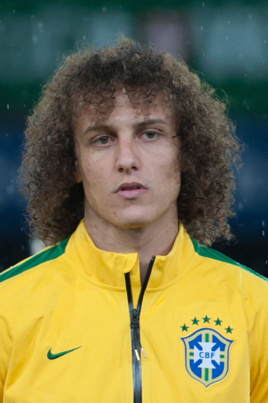 International Friendly Austria - Brazil November 18, 2014: David Luiz